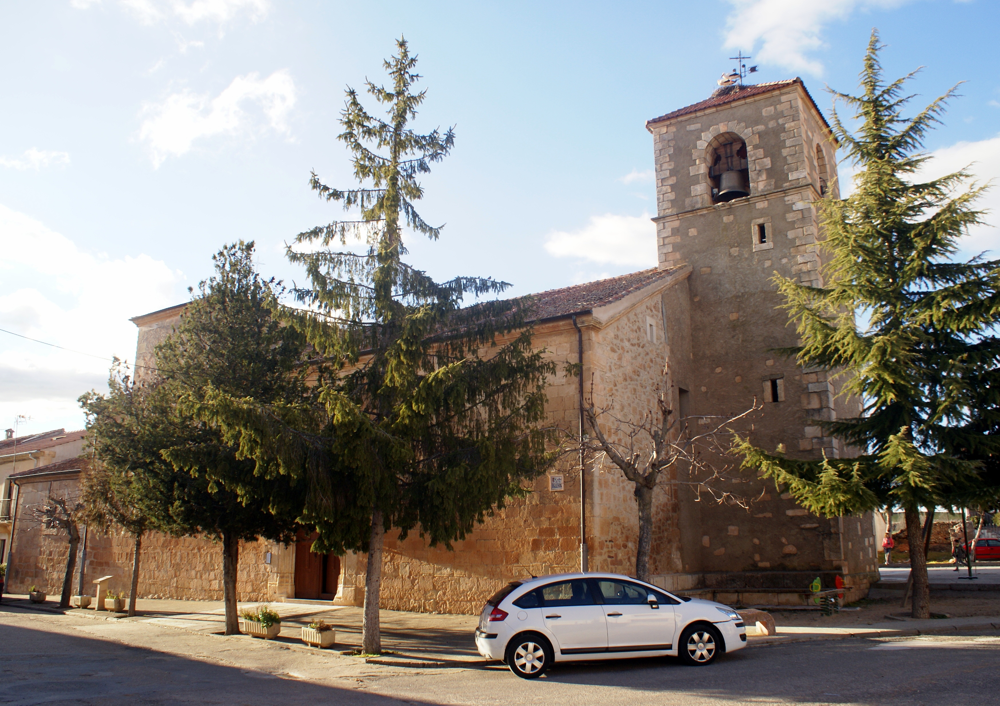 Church of Navares de Enmedio, Segovia, Spain.